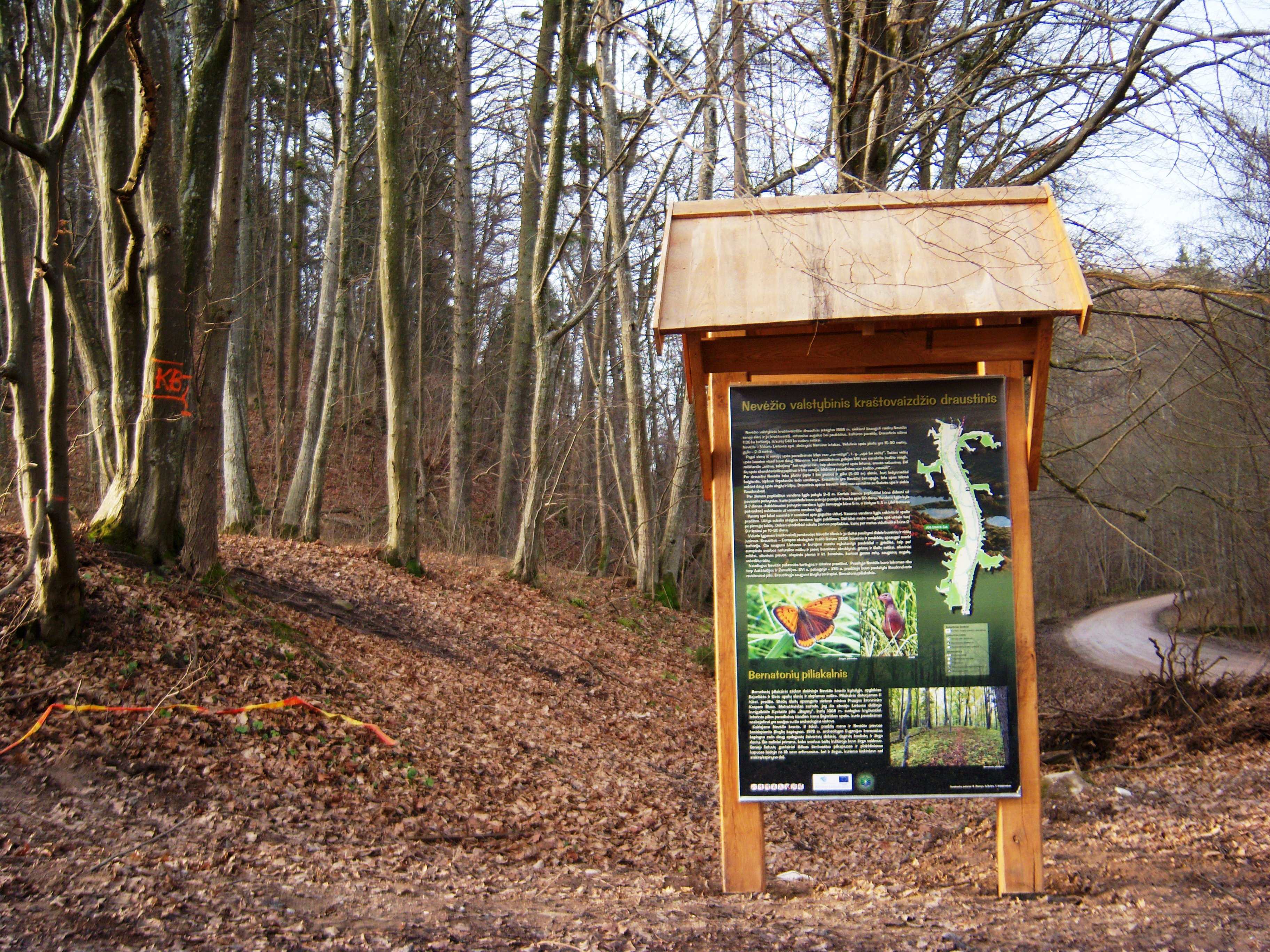 Bernatoniai hillfort, Kaunas district, Lithuania